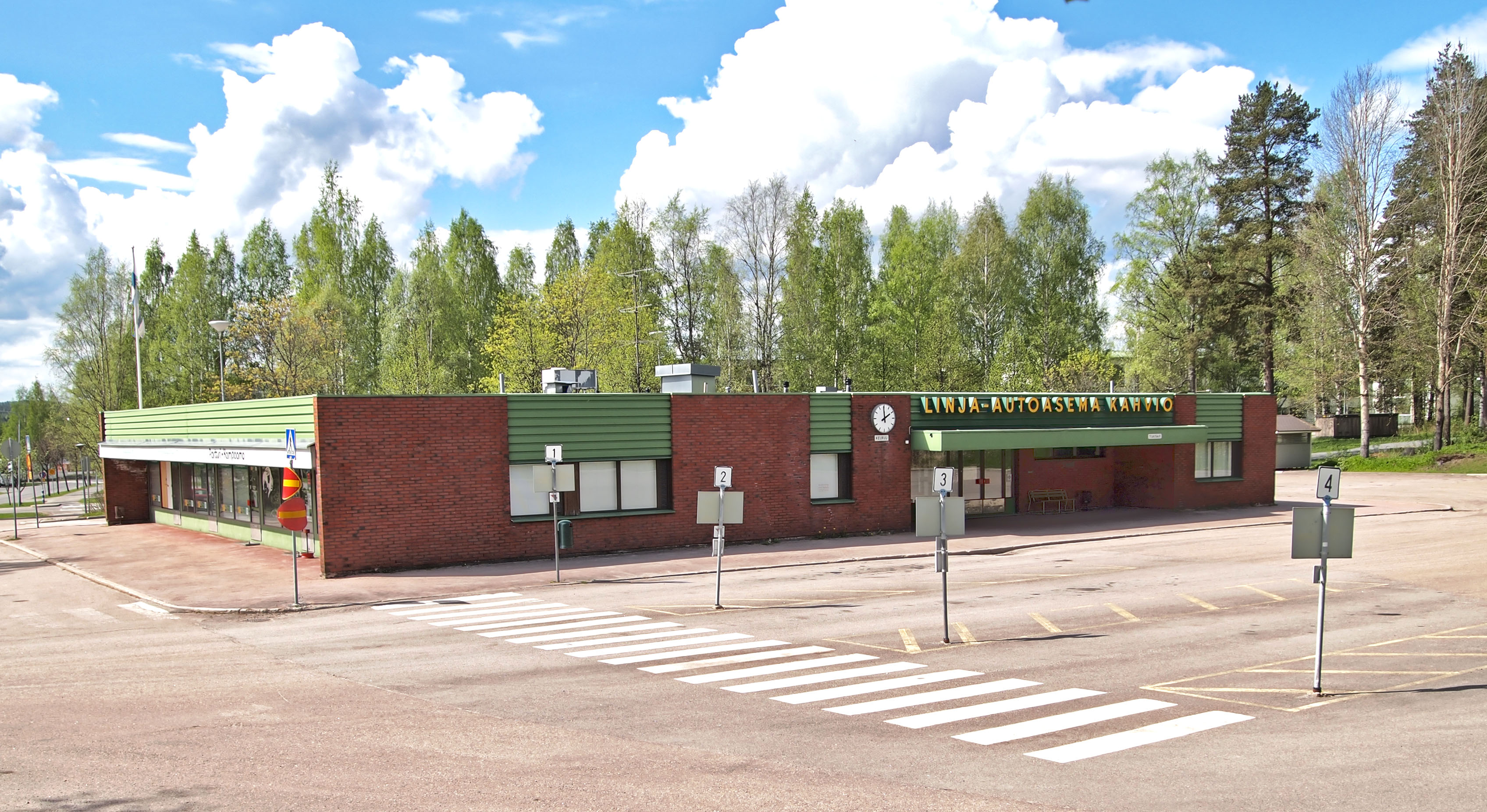 Bus station in Keuruu.